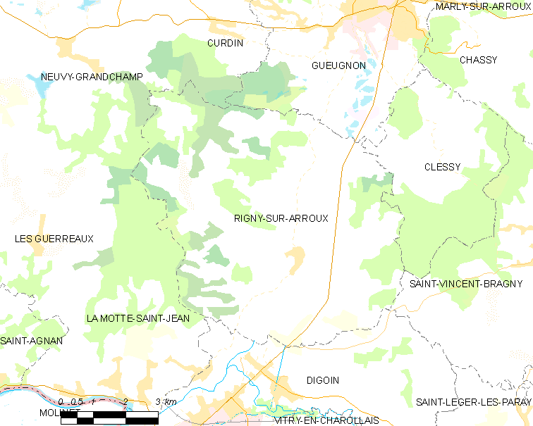 Map of French municipality